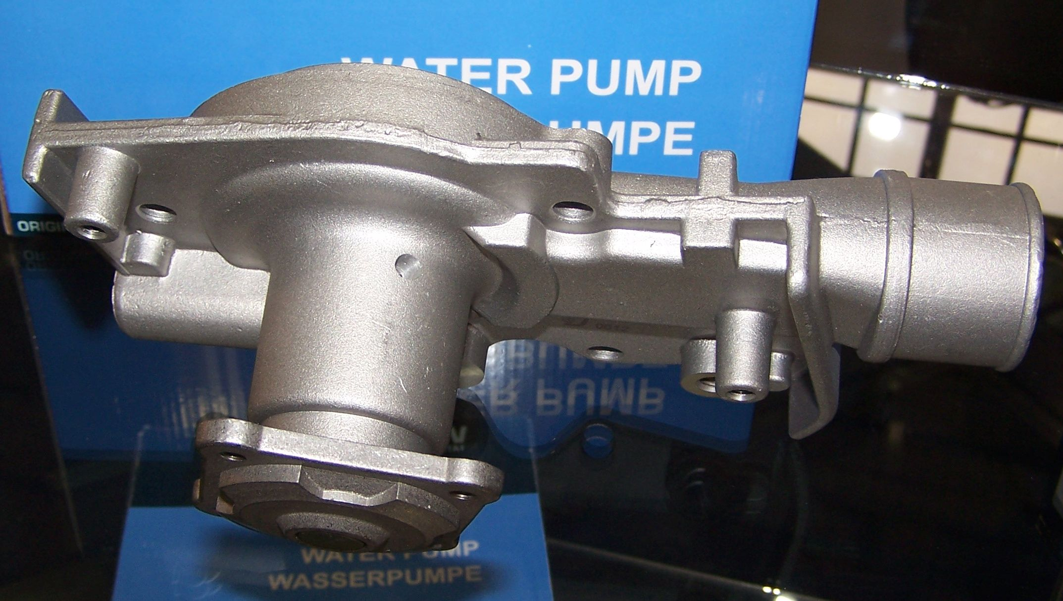 Car water pump